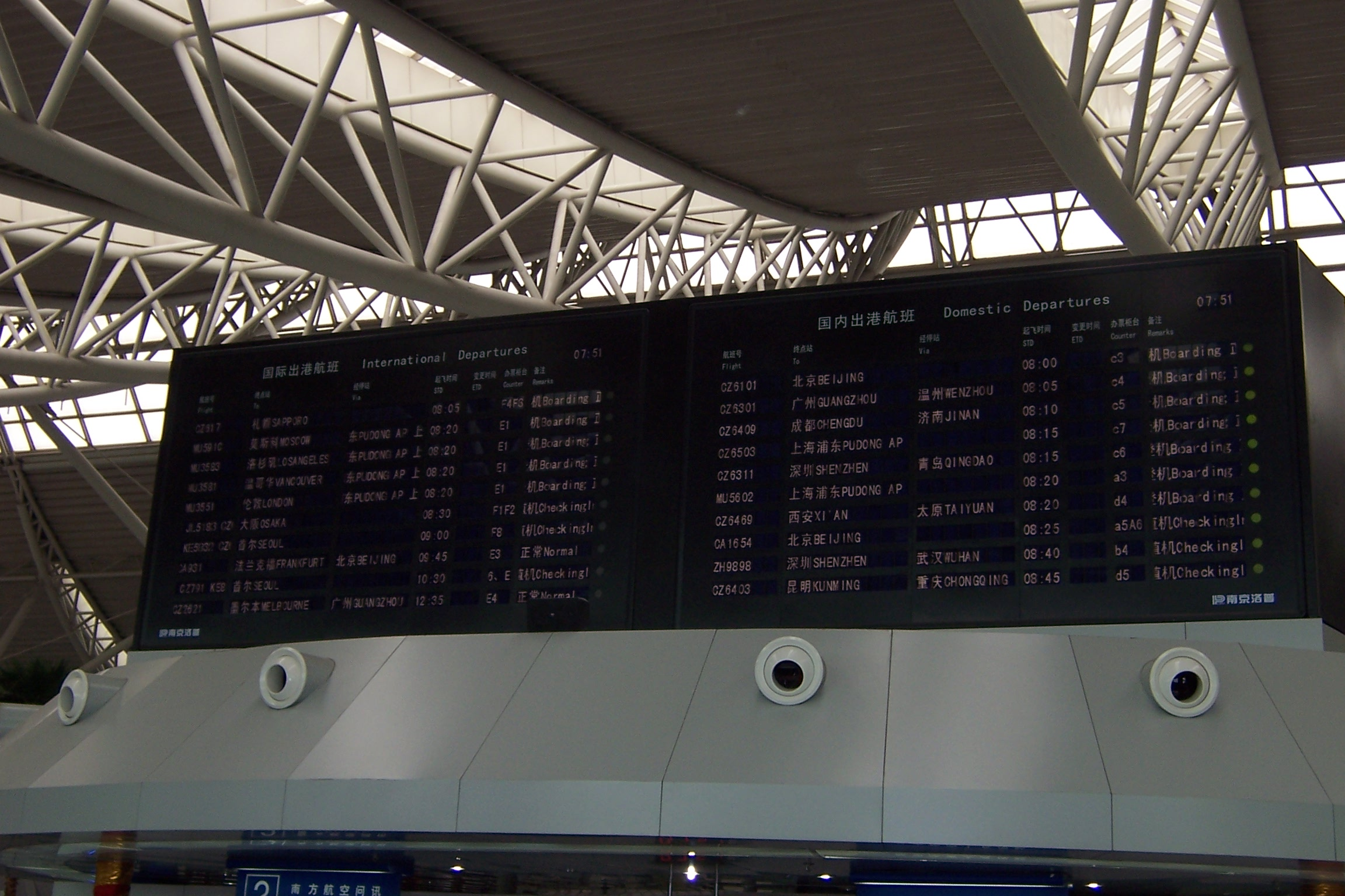 Departures boards and terminal architecture in the Shenyang Taoxian International Airport